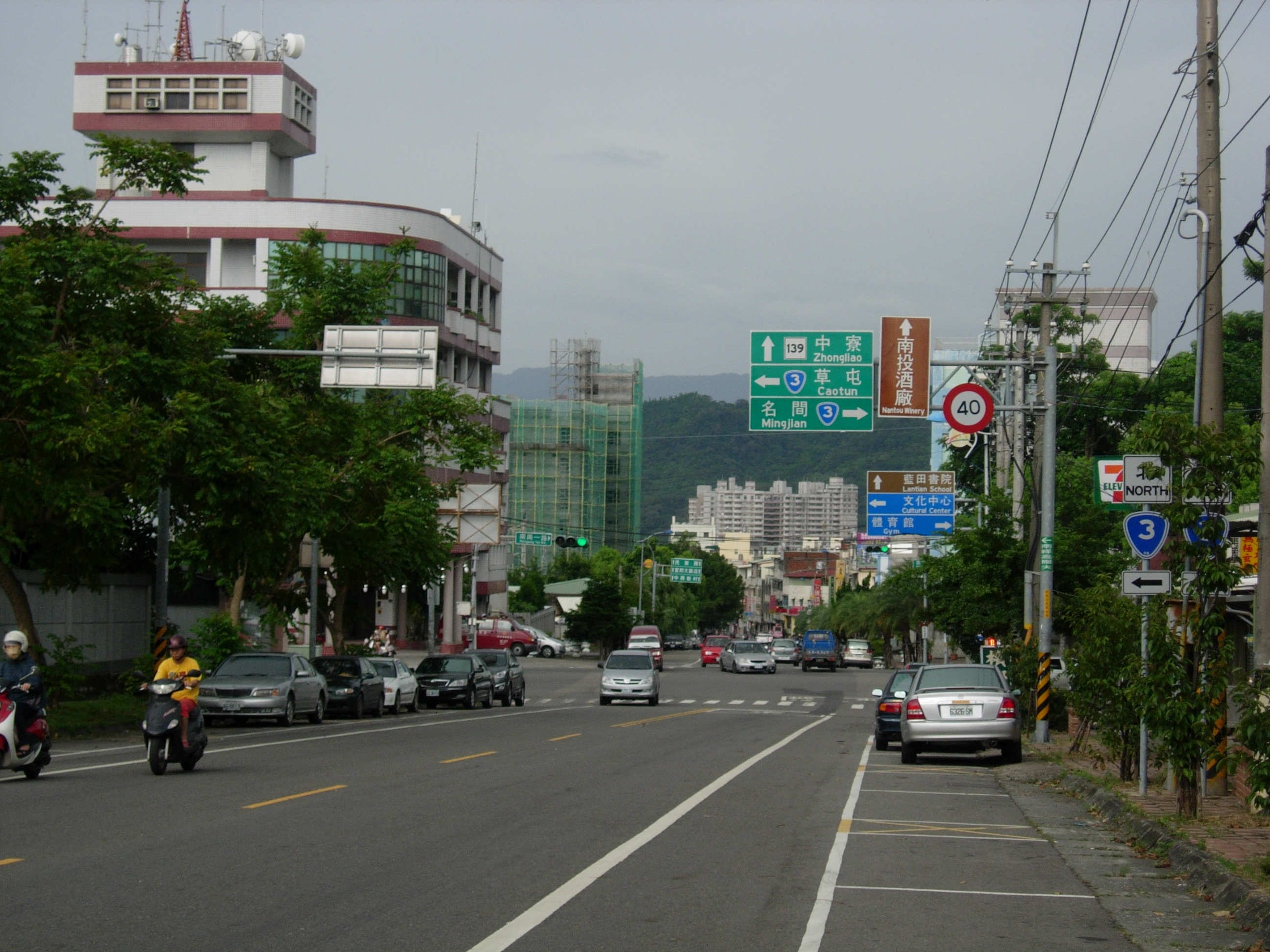 County Highway 139 and Provincial Highway 3 intersection, Nantou City, Nantou County. 中文（台灣）: 南投縣南投市，縣道139線與台3線路口。